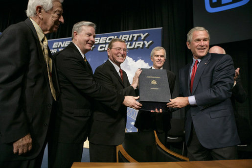 President George W. Bush holds the box containing the energy bill after signing the H.R. 6, The Energy Policy Act of 2005 at Sandia National Laboratory in Albuquerque, New Mexico, Monday, Aug. 8, 2005. Also on stage from left are Congressman Ralph Hall (R, TX), Congressman Joe Barton (R, TX), Senator Pete Domenici (R, NM) and Senator Jeff Bingaman (D, NM).